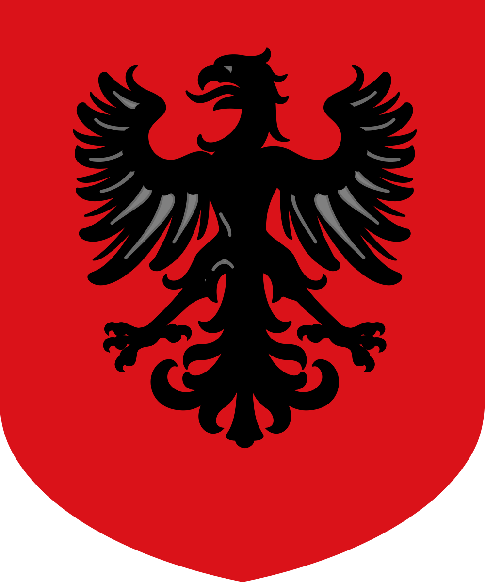 Alidosio (Venice) shield